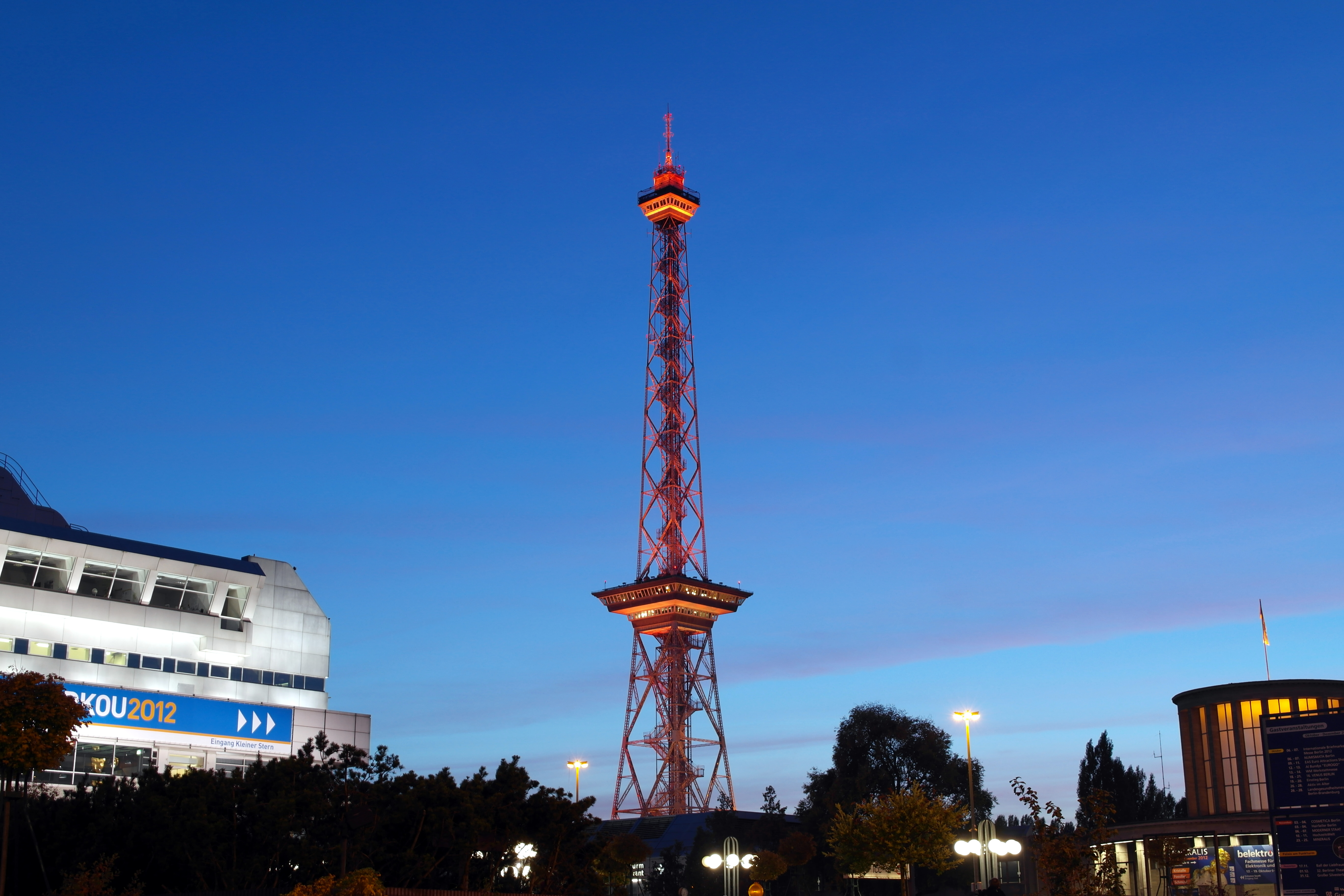 Funkturm Berlin